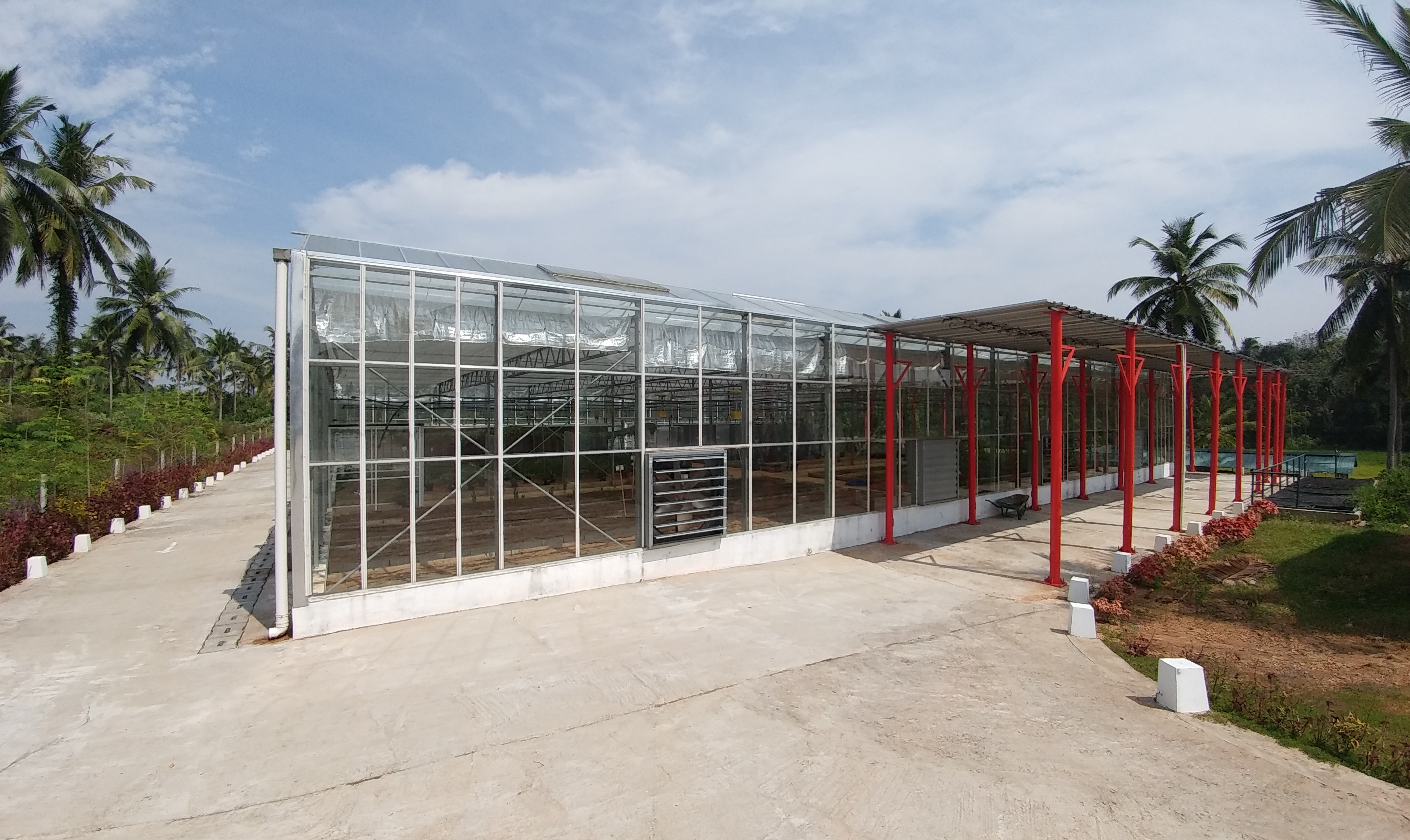 An image of the greenhouse complex at the Sri Lanka Institute of Nanotechnology